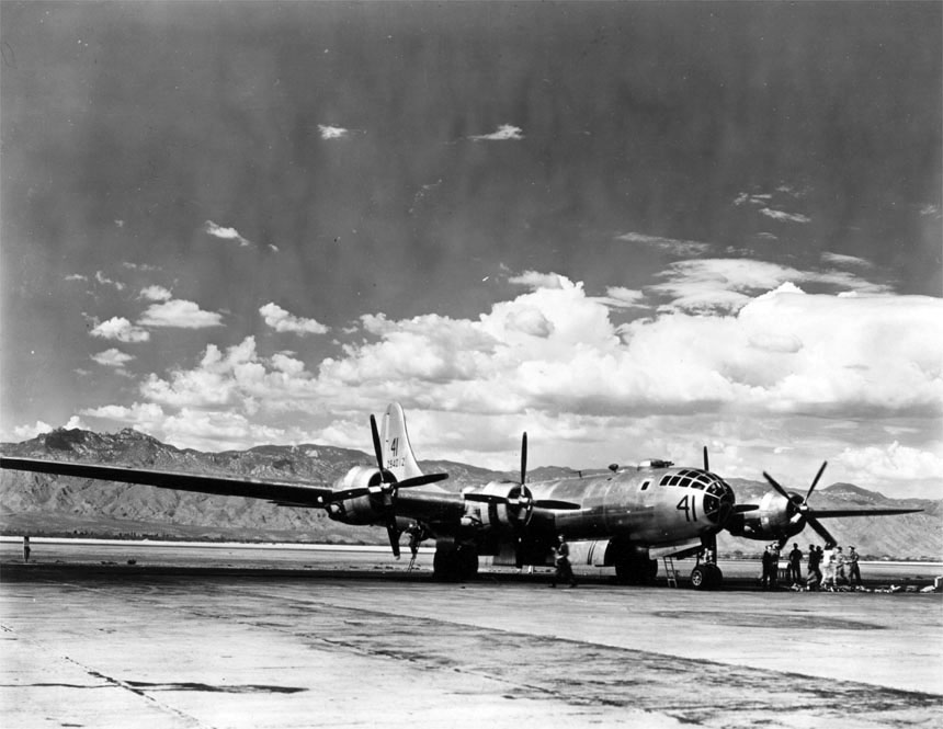 A U.S. Army Air Forces Boeing B-29A-20-BN Superfortress (s/n 42-94012) at Davis-Monthan Air Force Base, Arizona (USA). Original caption: "The immenseness of the 141 foot wing span of a Boeing B-29 Superfortress based at Davis-Monthan Field is vividly illustrated here with the cloud topped Santa Catalina Mountains as a contrasting background. (49506 A.C.)" [1]